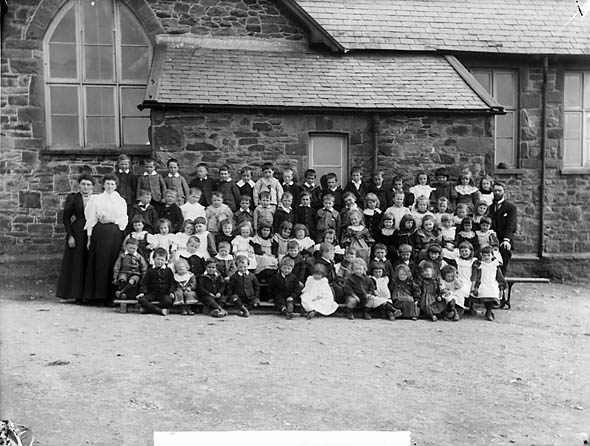 1 negative : glass, dry plate, b&w ; 16.5 x 21.5 cm.